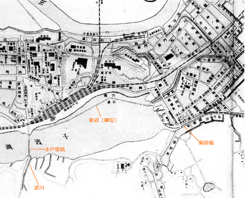 1919 Mito city map. East side. From the National Diet Library Digital Collection in Japan.